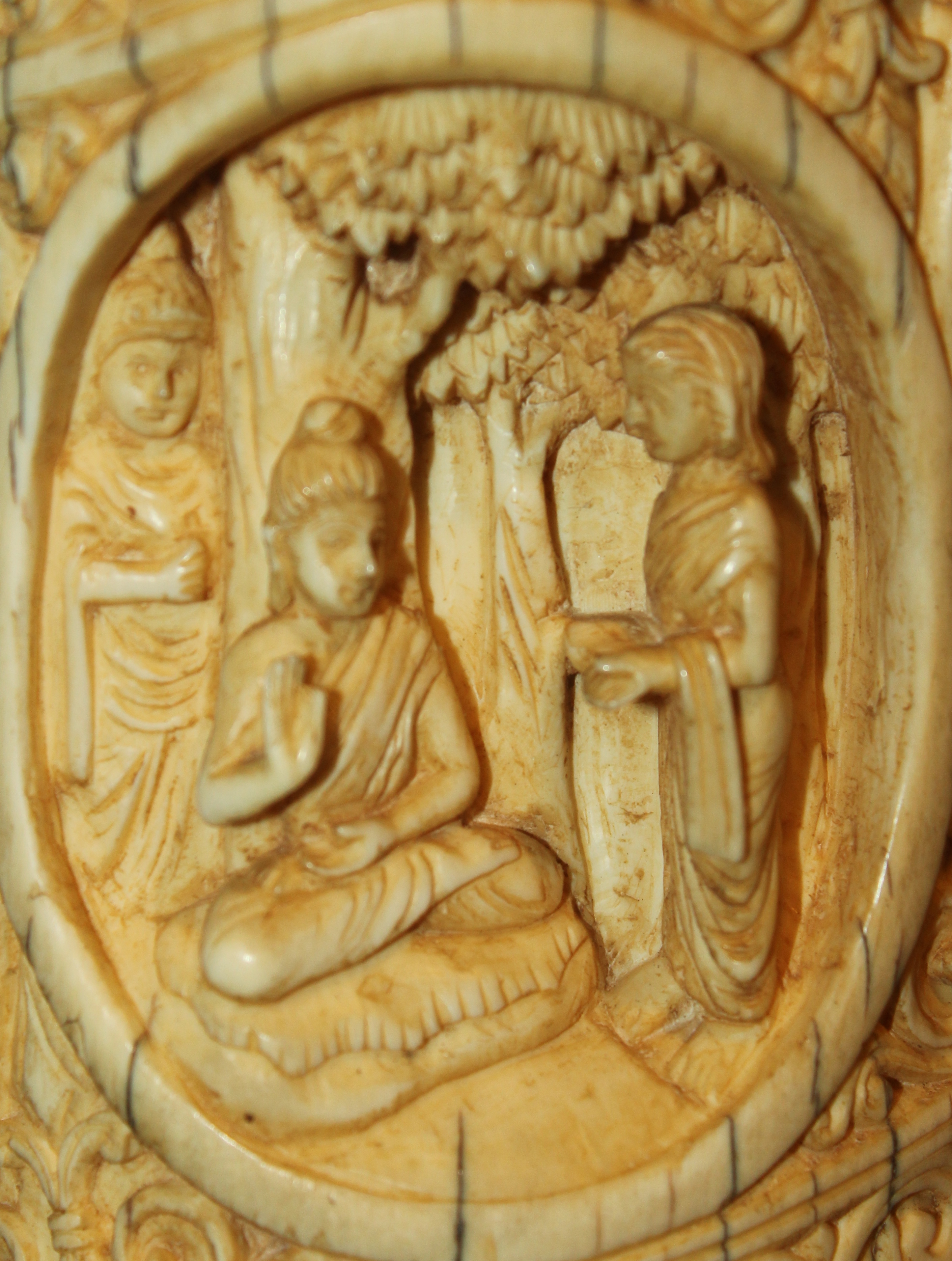 Roundel 38: Nanda before Buddha